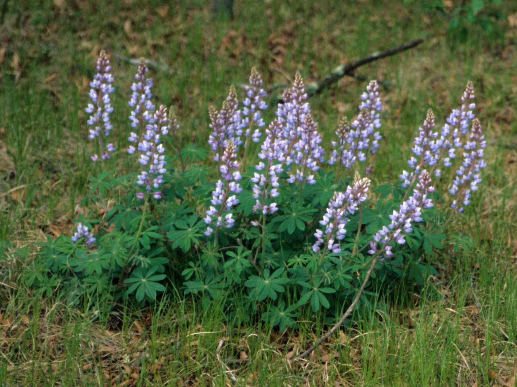 Lupinus perennis L. - sundial lupine or perennial lupine - small patch of flowering lupine growing in Jackson Co., Wisconsin, United States